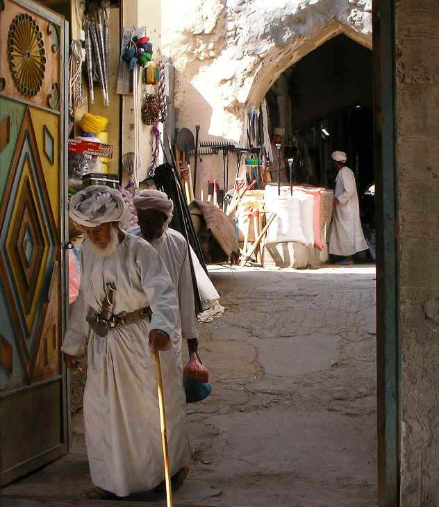 location is Nizwa, Oman